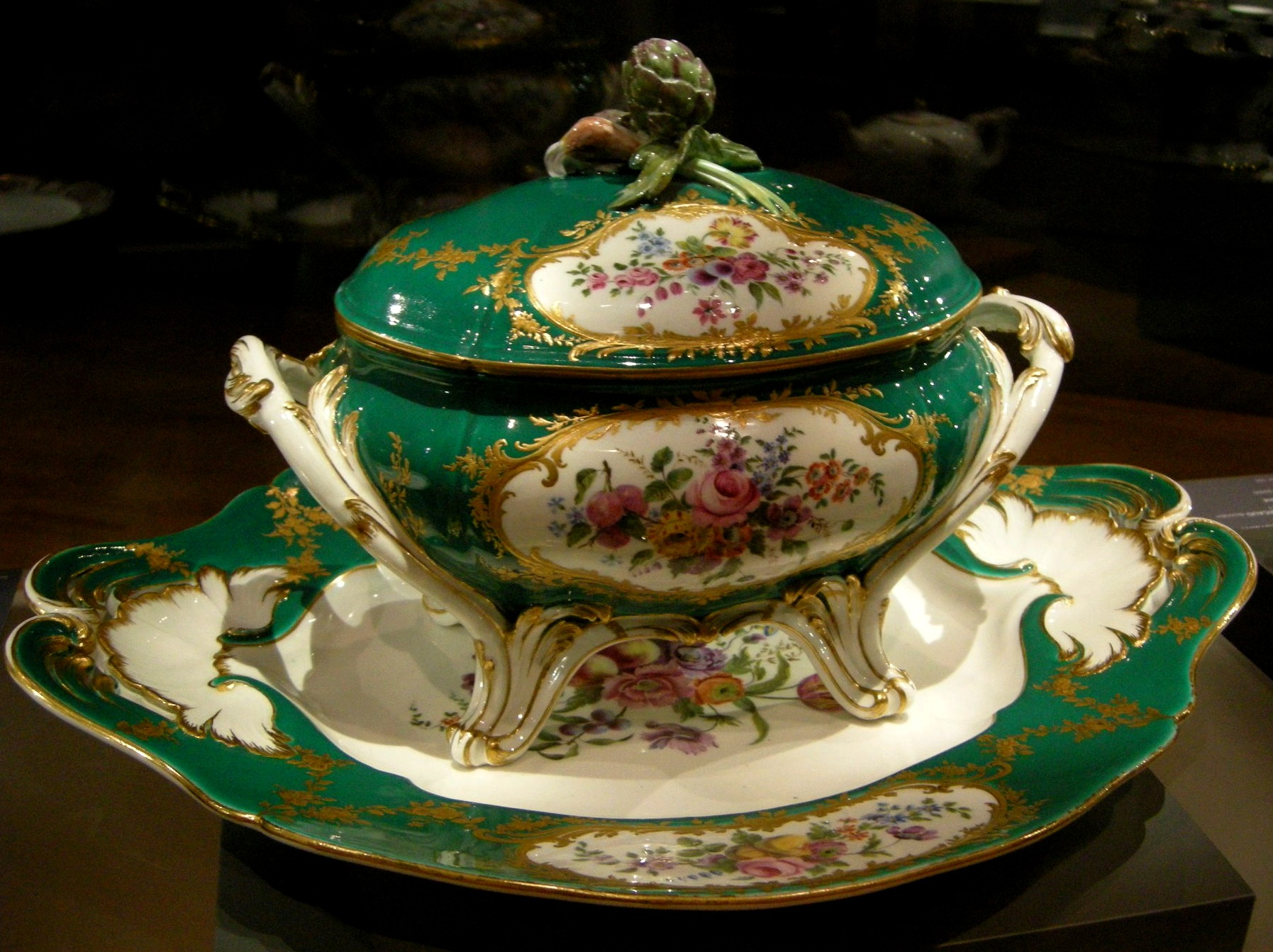 Jacques-François Micaud (French 1732/35-1811): soup tureen and tray, Sèvres porcelain, National Gallery of Victoria, Australia